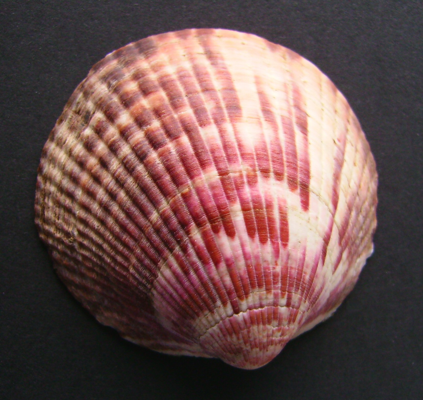 Tucetona laticostata from Browns Bay, Auckland, New Zealand. This work has been released into the public domain by its author, Graham Bould. This applies worldwide.In some countries this may not be legally possible; if so:Graham Bould grants anyone the right to use this work for any purpose, without any conditions, unless such conditions are required by law.